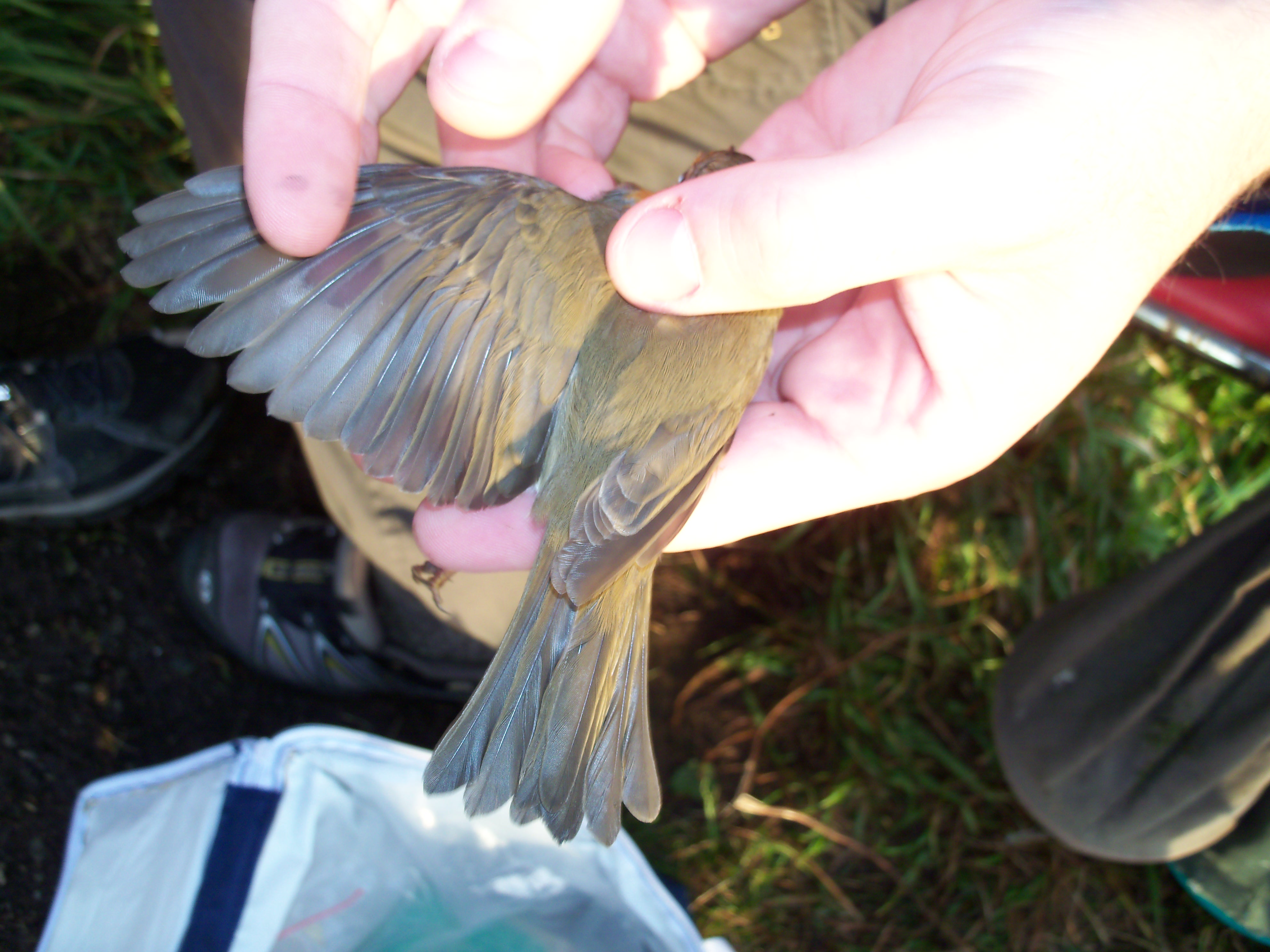 A European Robin (Erithacus rubecula) ringed at Landsort Lighthouse on the south cape of the island Öja (Landsort) ,south of Nynäshamn in Södermanland in Stockholm County in Sweden. Landsort Bird Observatory is responsible for the ringing.